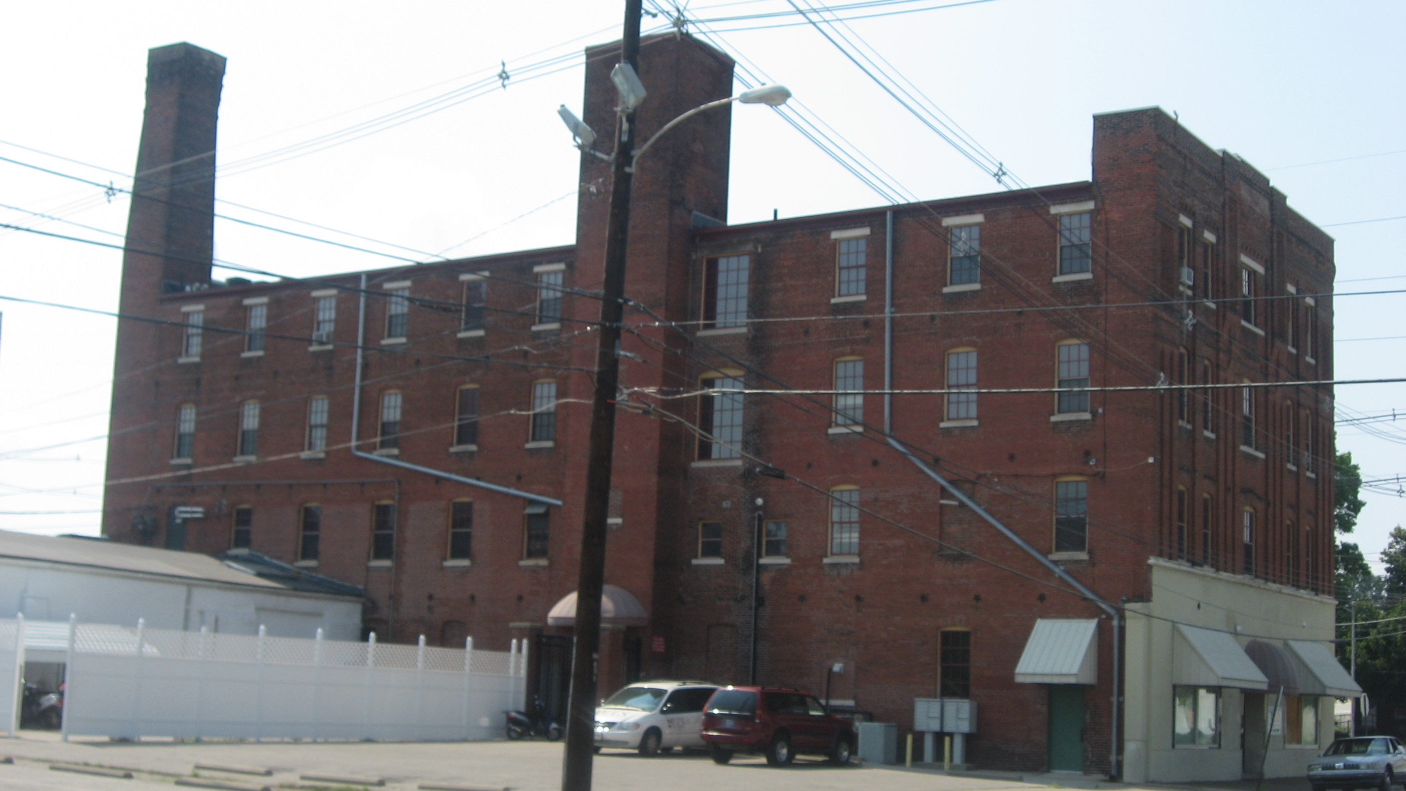 Front and side of the L. Puster and Company Furniture Manufactory, located at 326 NW. Sixth Street in Evansville, Indiana, United States. Built in 1887, it is listed on the National Register of Historic Places.